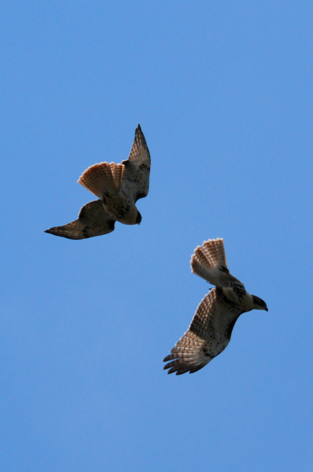 Territorial adult chasing away an immature Red Tailed Hawk. The immature bird has a brown tail. The tail is only red after the first molt. This could be the parent bird with offspring or simply an adult warding off an intruding immature bird. The adult dives after the immature bird whose right wing is hidden behind its back as it turns to evade him. Taken in Malden, MA